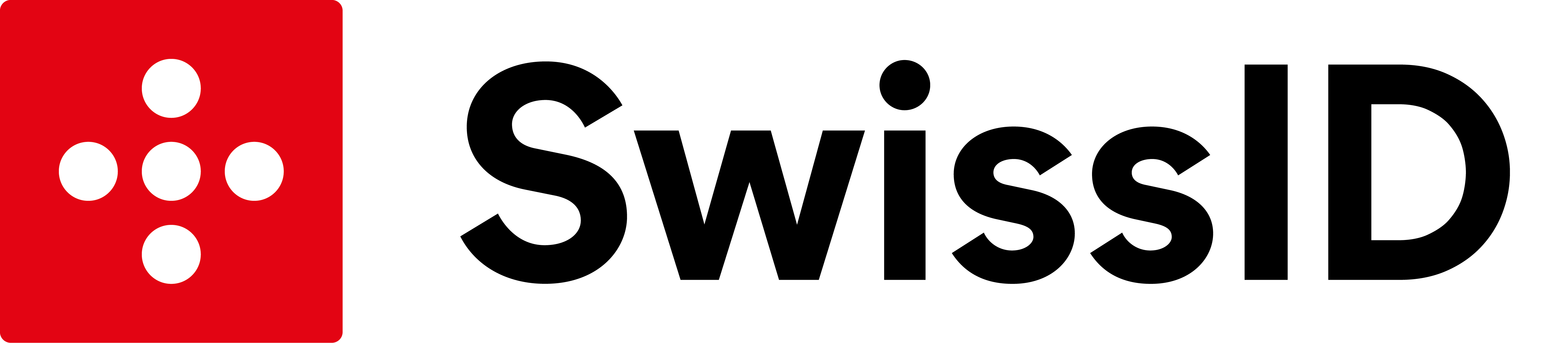 Logo of SwissID